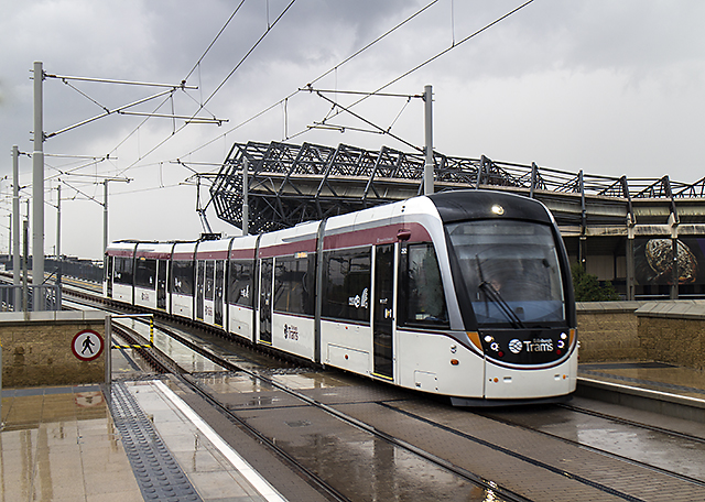 Tram approaching Murrayfield